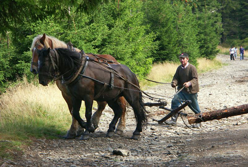 Log-rolling of wood in Śnieżnik Mountains, Sudetes, Poland.